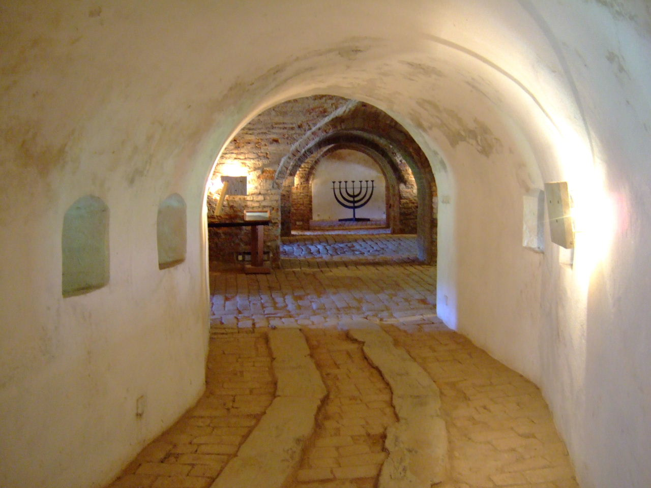 Former central morgue and ceremonial halls of Terezín ghetto in a casemate of the fortress Aufnahme: 1. Juli 2006 Url